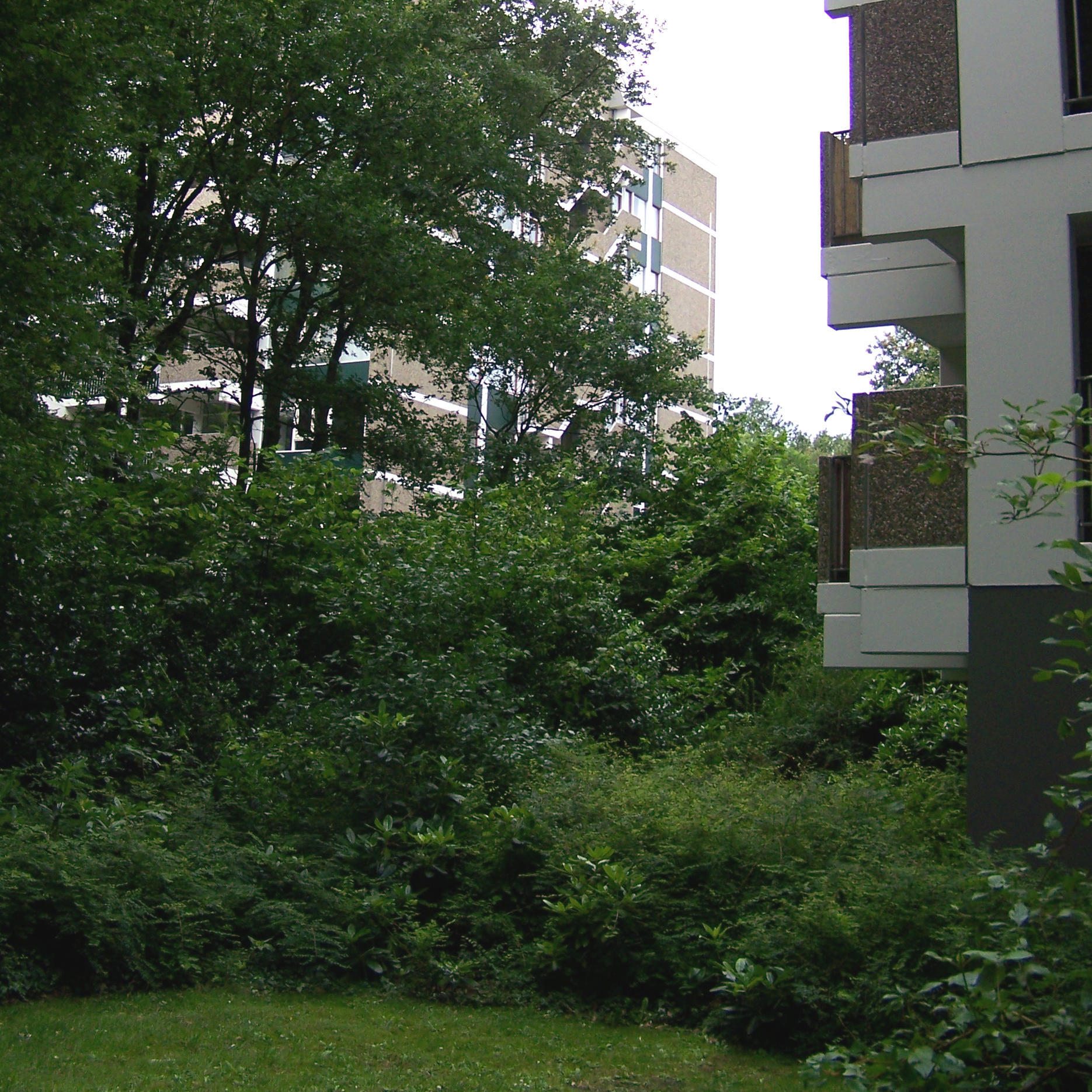 Appartments in Doorwerth (the Netherlands). Typical for Doorwerth is the integration of human architecture and natural forest.